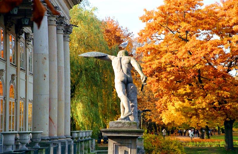 Palac na Wodzie in Warsaw with the permission of the authers Marek and Ewa Wojciechowscy [1]